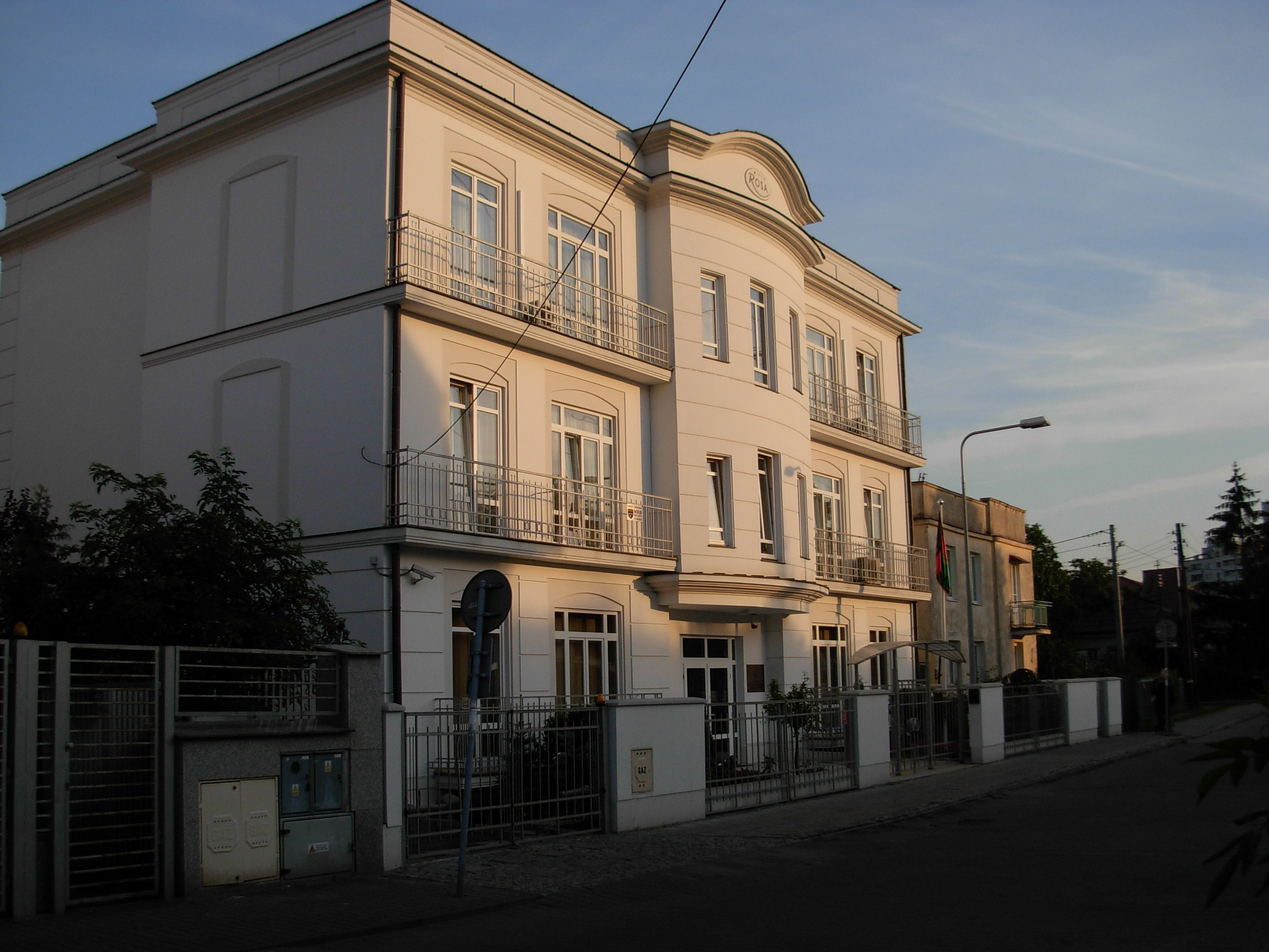 Afghan Embassy in Warsaw